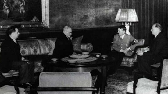 حسن اسفندیاری Hassan Esfandiari, Iranian parliament speaker and Mussa Nuri Esfandiari, Iranian ambassador to Deutsches Reich meeting Adolf Hitler